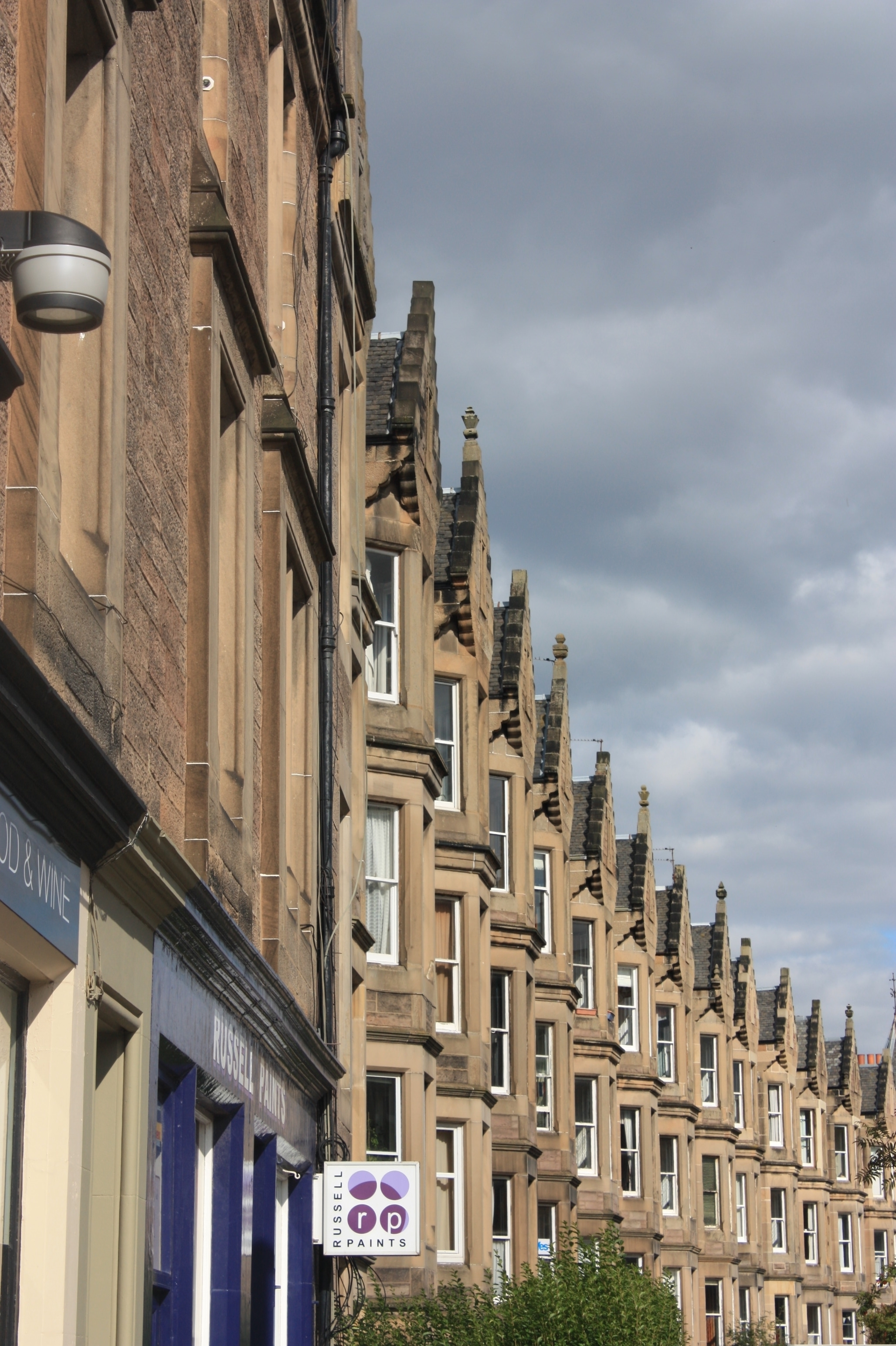 Typical Victorian tenements in Marchmont